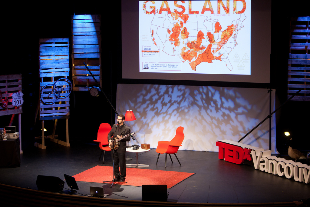 Josh Fix giving a TEDx talk in West Vancouver, BC.